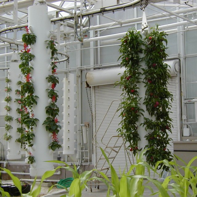 Plants growing in the greenhouse, in the "Living with the Land" attraction, The Land, Epcot, Walt Disney World, Florida.